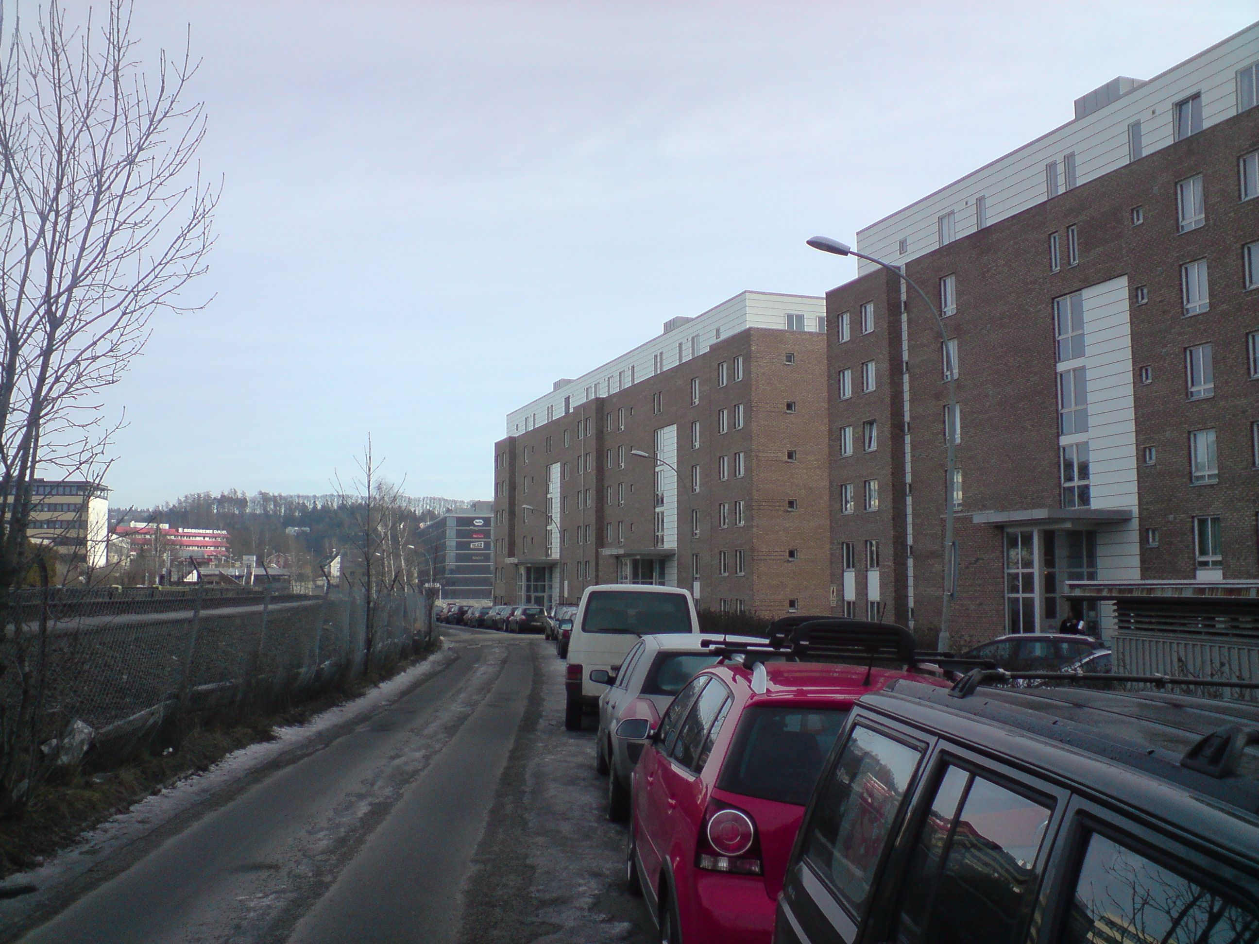 Etterstadkroken in Oslo